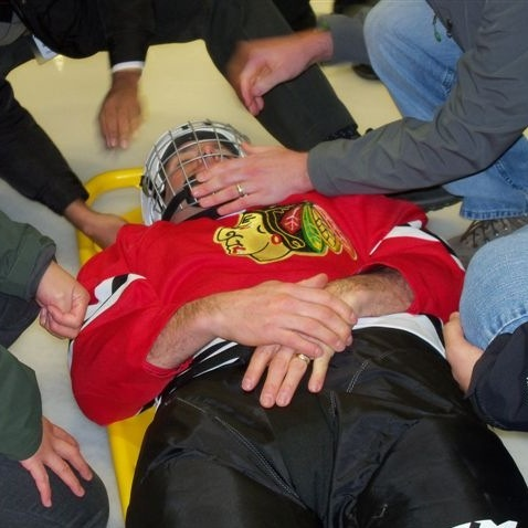 Straps being adjusted around player on spine board